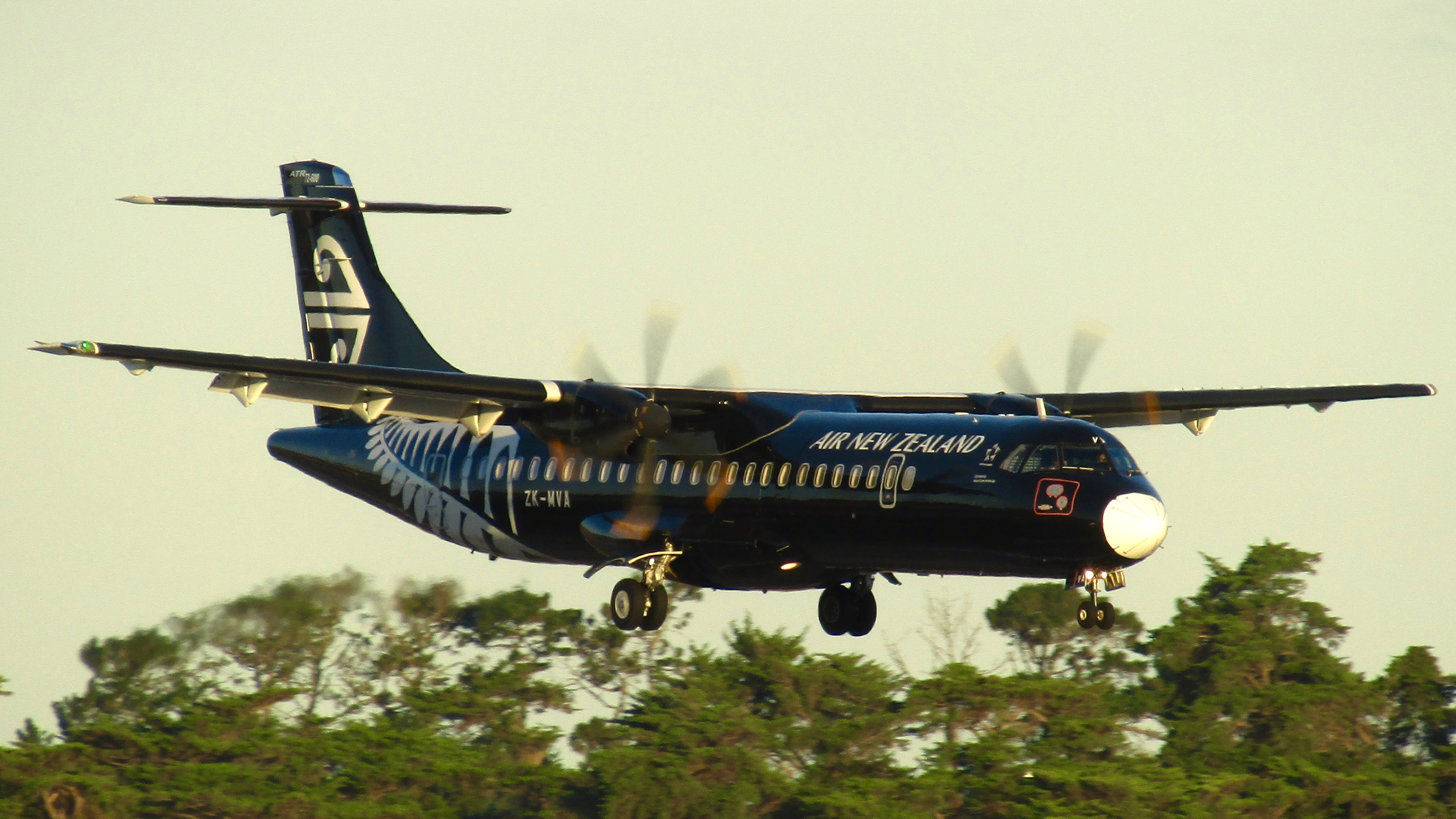 Black livery ATR 72-600 ZK-MVA landing at Auckland Airport on the 2nd of March 2019, still bearing the white 'cocaine nose'. Note: this was when Mount Cook Airline still operated ATR services for Air New Zealand.